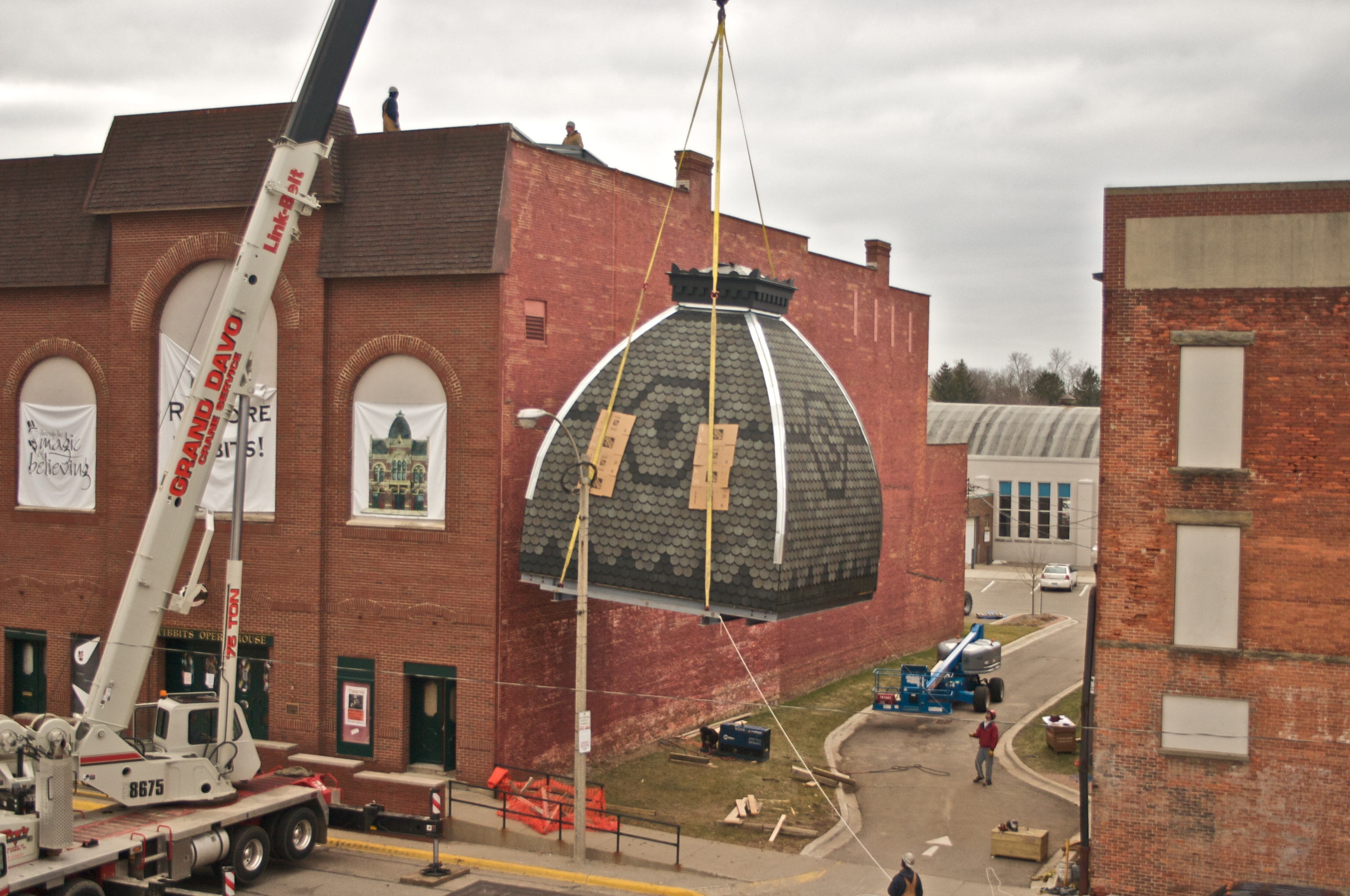 Part of the Restoration process: a picture of the cupola being raised onto the theatre.